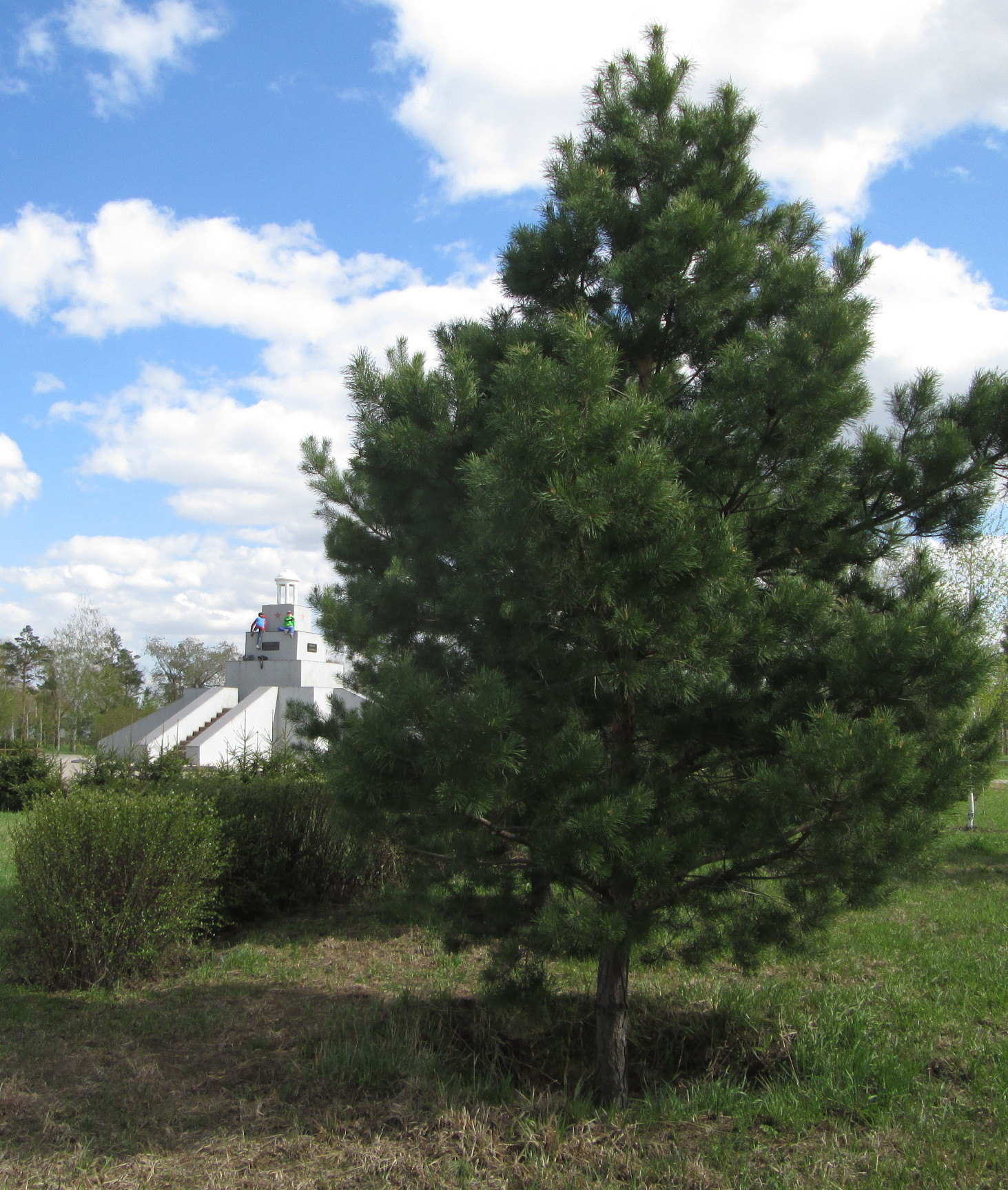 Pine tree in the park Fighters of Revolution (Old Kirovsk) in Omsk. Shows planting in the reconstruction of the park.